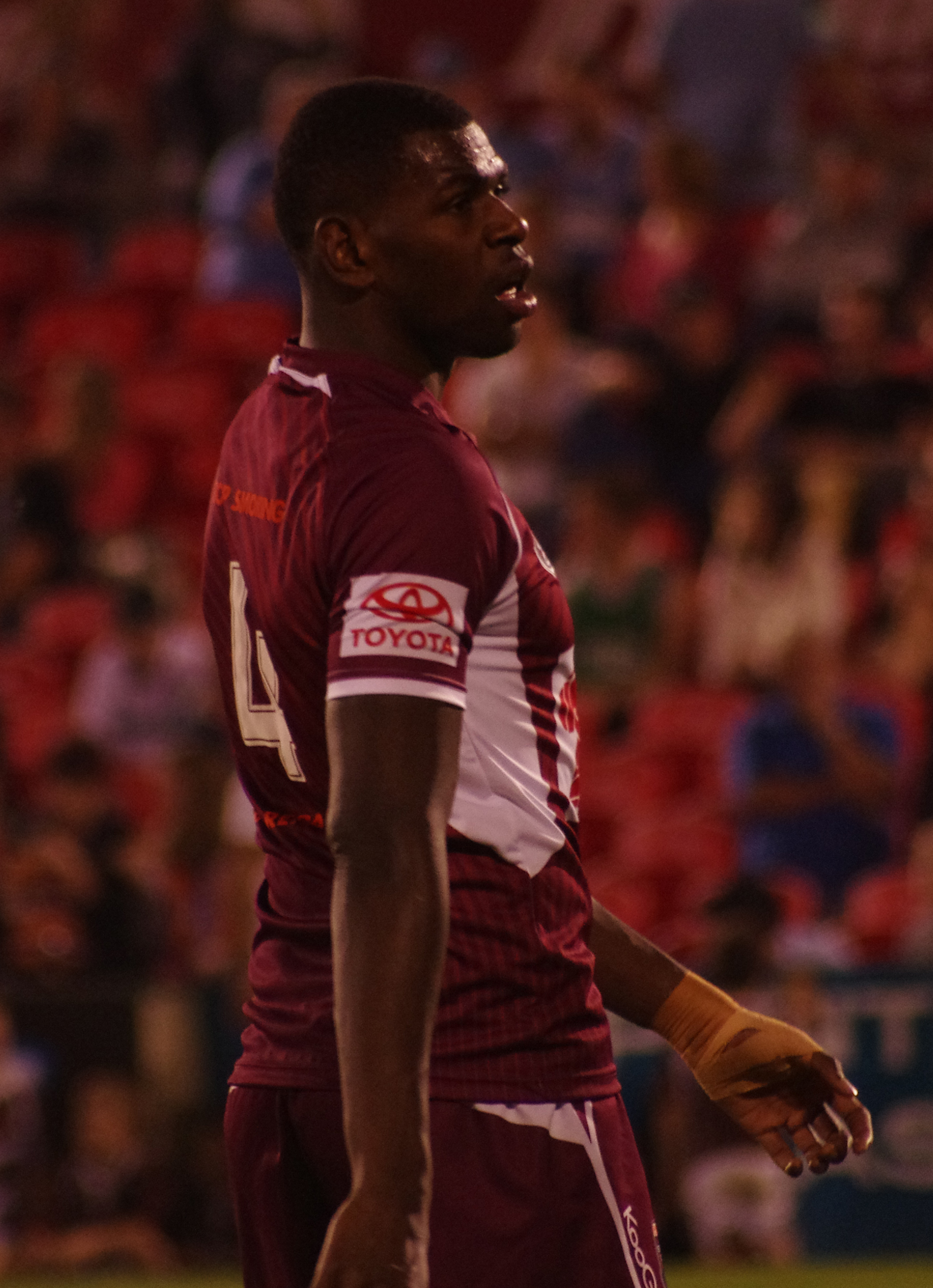 Edrick lee competing for Queensland in the State of origin